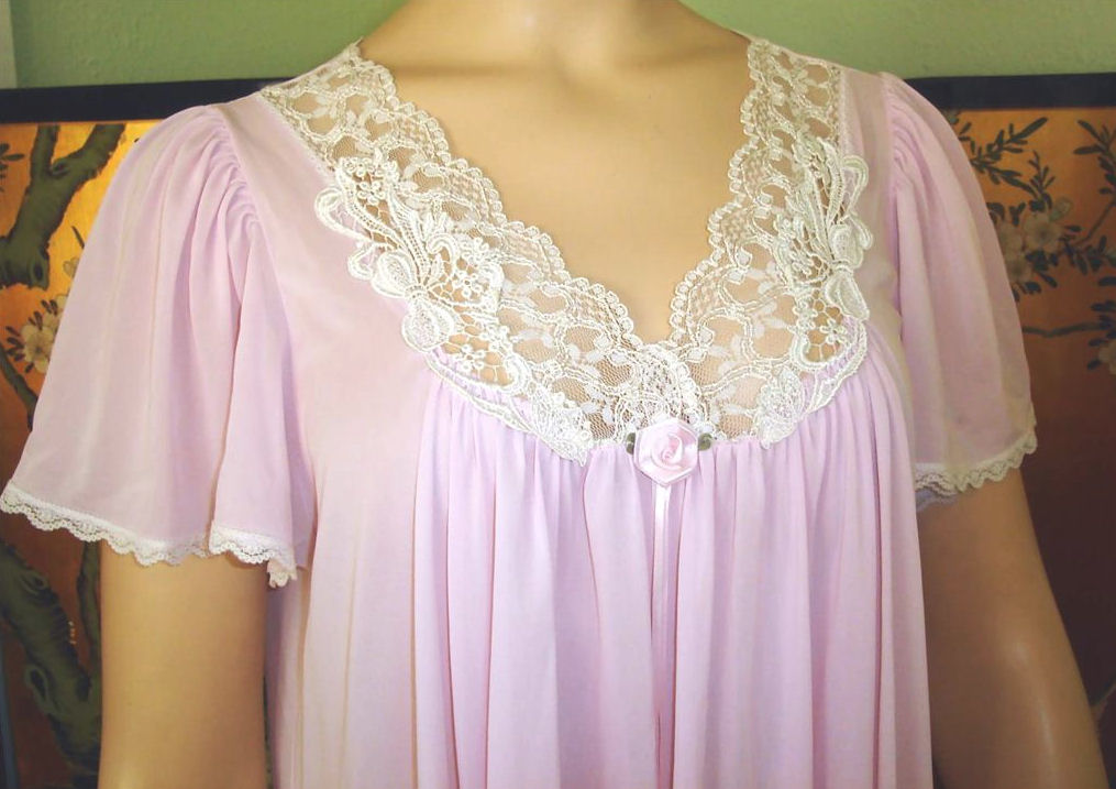 Pink nightie with lacy bustline